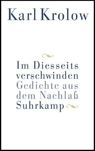 Book cover of Karl Krolow, "Im Diesseits verschwinden" 2002